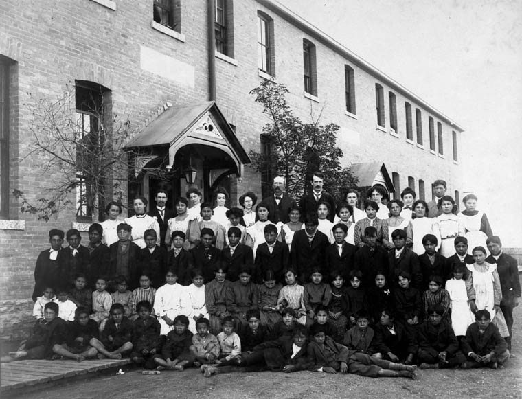 Residents of an "Indian school", Regina, Saskatchewan, 1908.